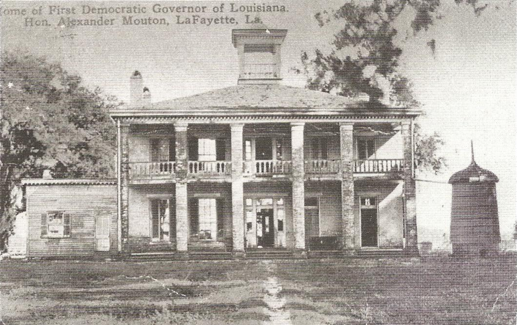 Alexander Mouton house at Ile Copal. Location now within limits of city of Lafayette, Louisiana.